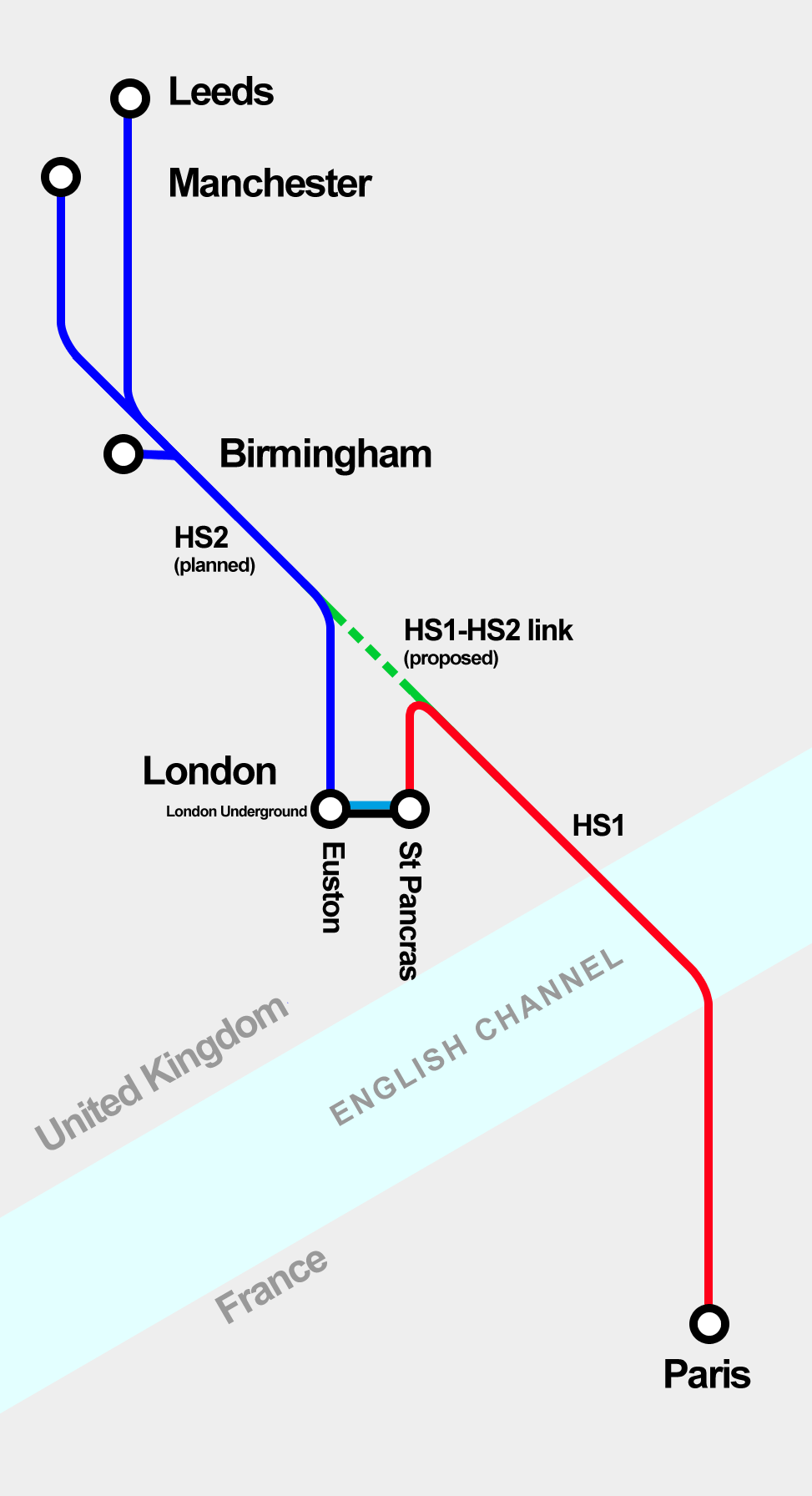 Outline diagram indicating the destinations of High Speed 1 and High Speed 1 in the UK and France, showing the proposed link between the two lines and London Underground links in London